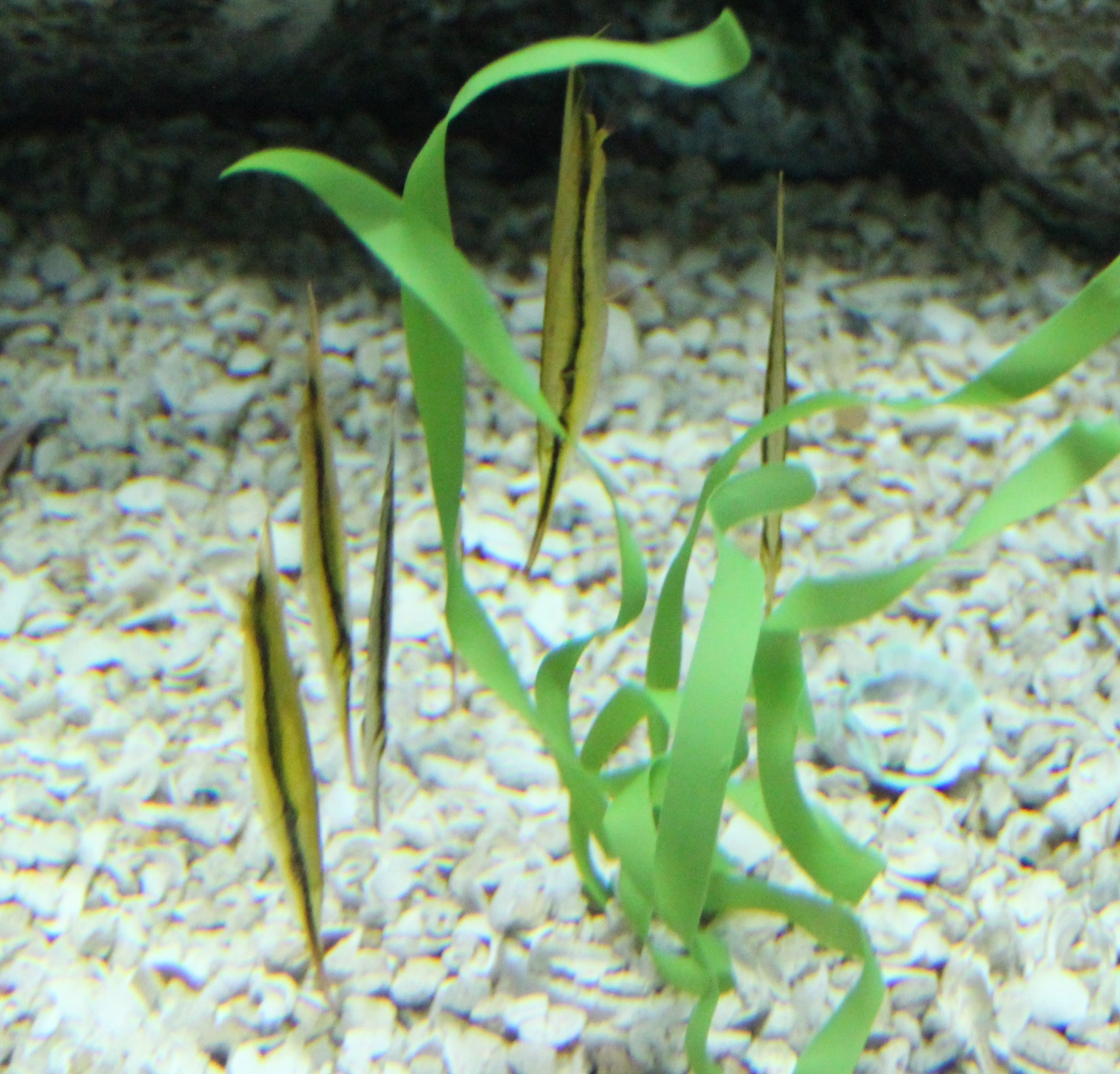 Shrimpfish at the Tennessee Aquarium